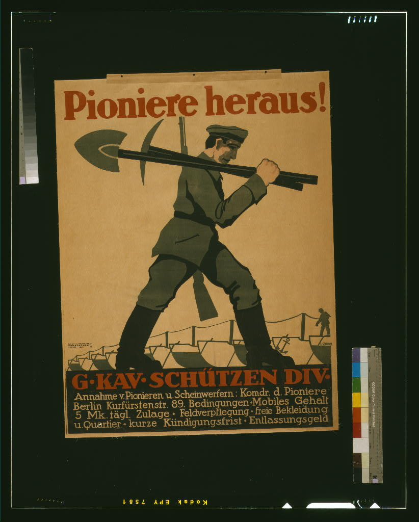 Title: Pioniere heraus! G.Kav.Schützen Div Abstract: Poster shows a soldier carrying a shovel, pickax and a rifle; in background a line of ships. Text is call for sappers to join the G. Cavalry Protection Division, Berlin. Benefits are listed. Physical description: 1 print (poster) : lithograph, color ; 94 x 72 cm. Notes: Forms part of: Rehse-Archiv für Zeitgeschichte und Publizistik.; L. Zabel.; Title from item.